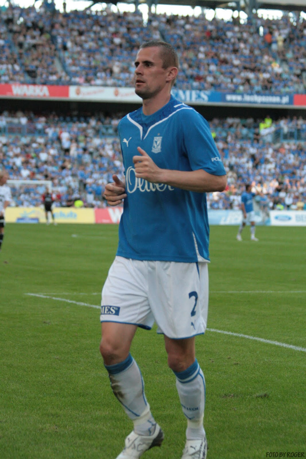 Polish football player Seweryn Gancarczyk